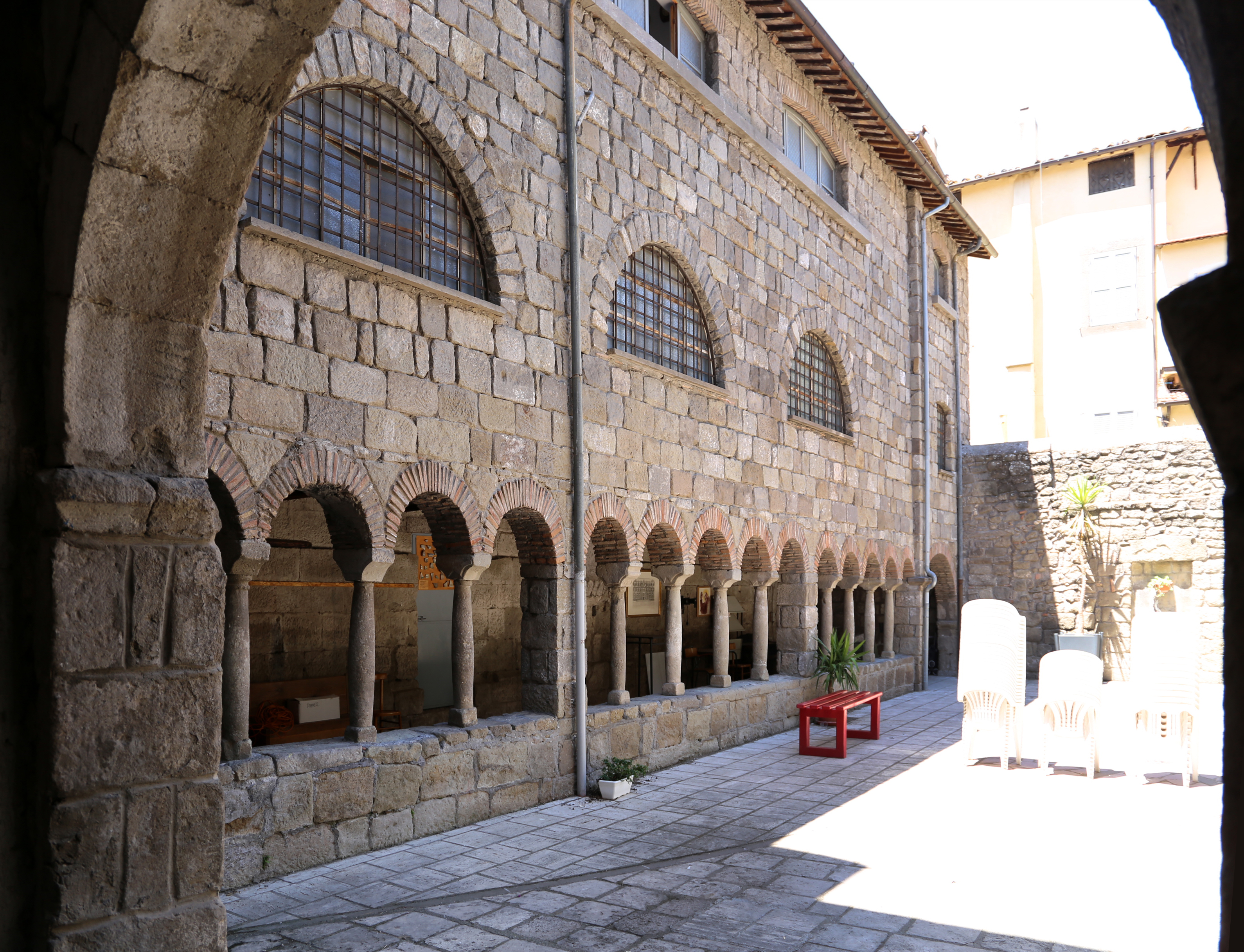 Santa Maria Nuova (Viterbo)